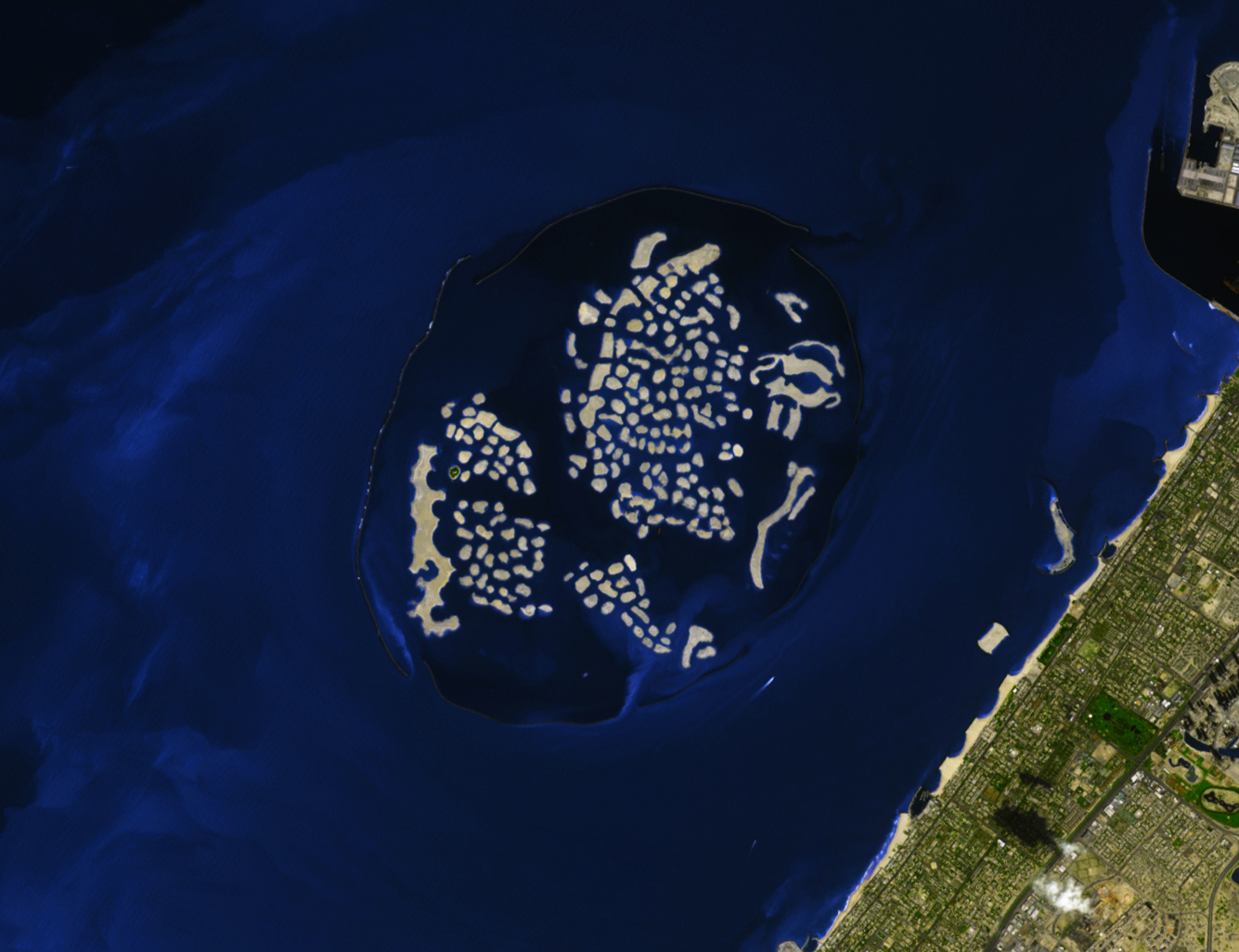 The World Archipelago, Persian Gulf. The image shows the project on February 5, 2009. All the continents are represented (the “map” is tilted toward the left). A breakwater surrounds the archipelago, and its role is obvious: outside the perimeter, especially to the northwest, the waters of the Gulf ripple with waves that would wear the artificial islands away.